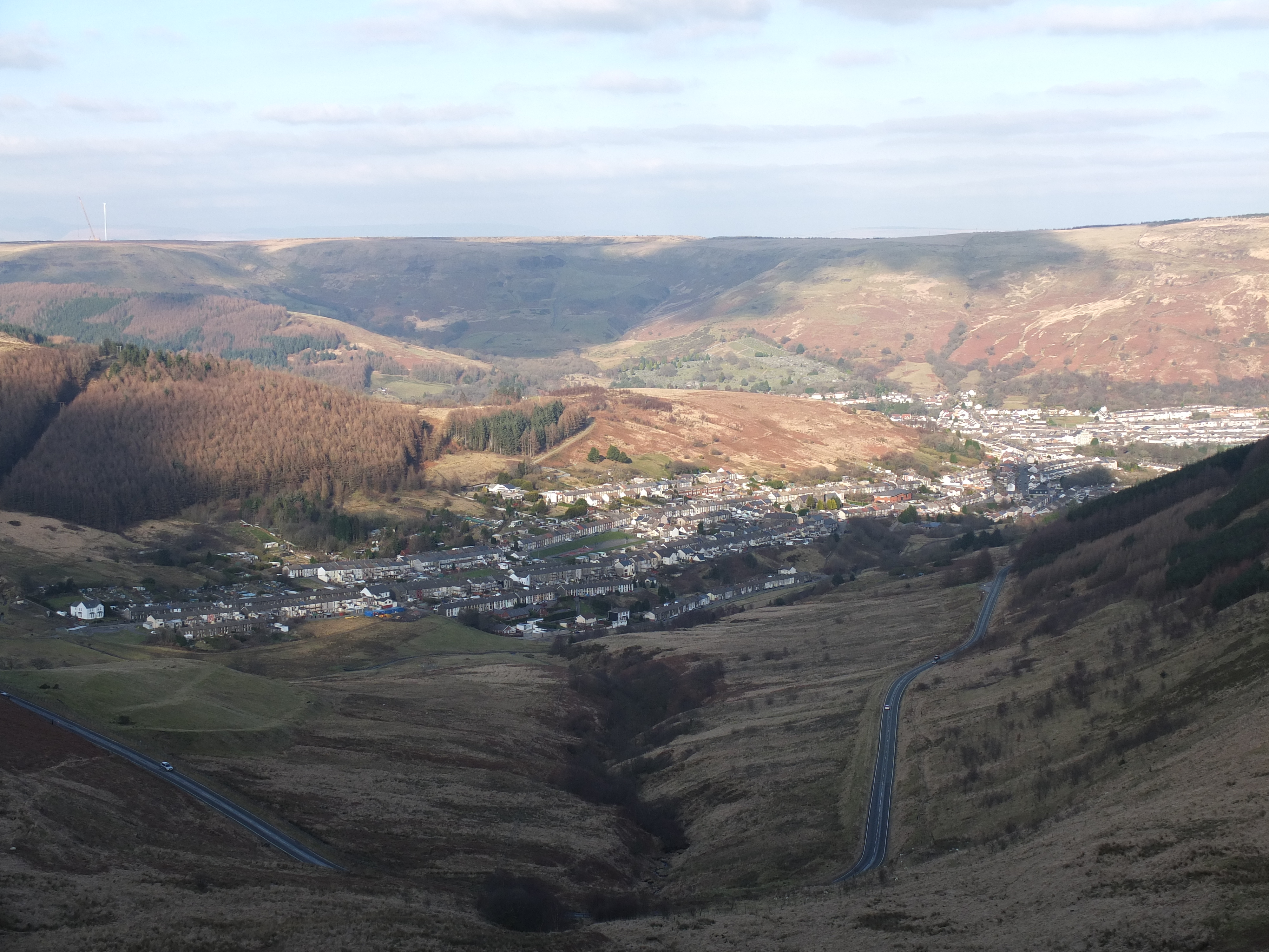 Characteristic Rhondda valley scenery: Cwmparc, 2013